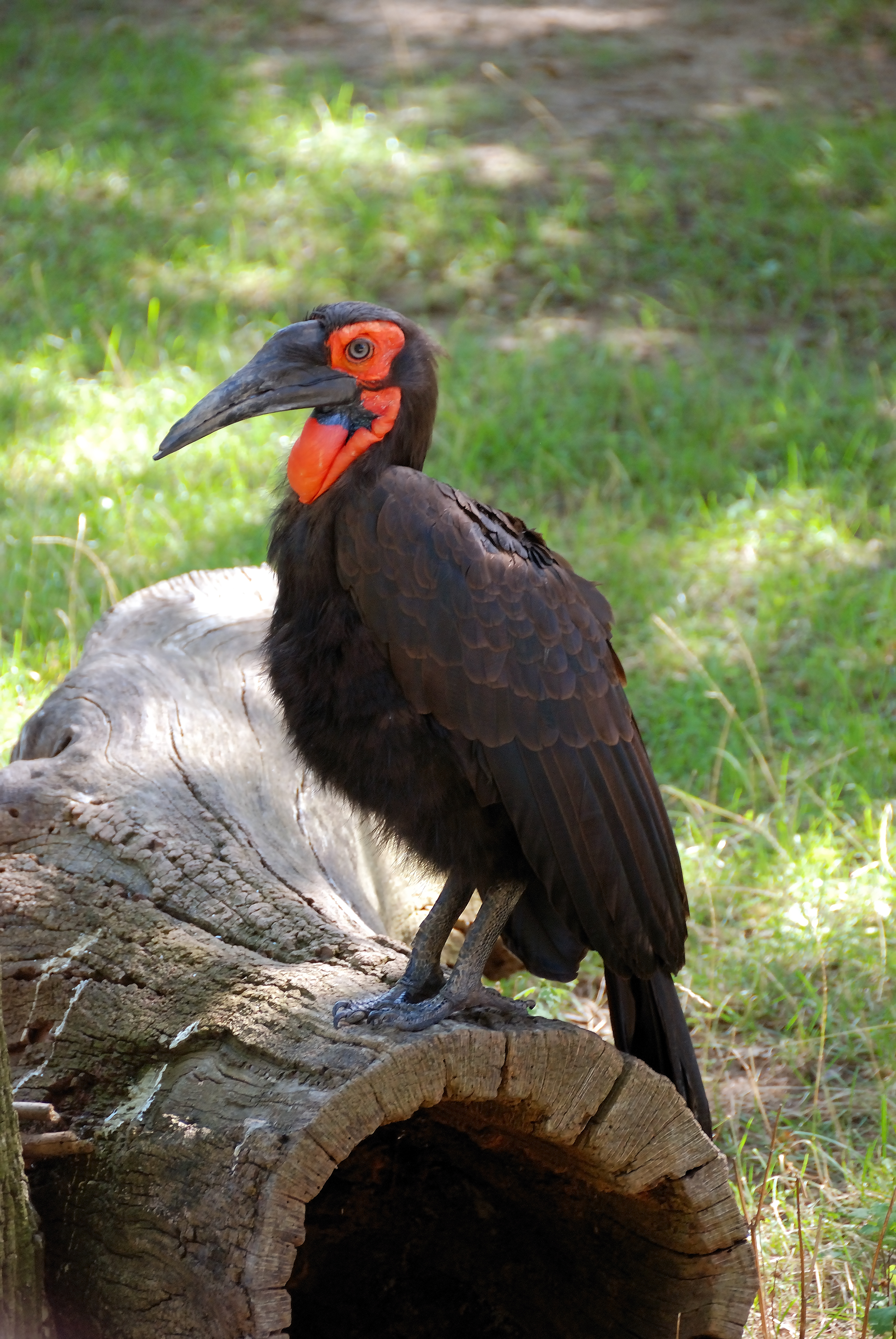 Southern Ground-hornbill at Lincoln Park Zoo, Chicago, USA.